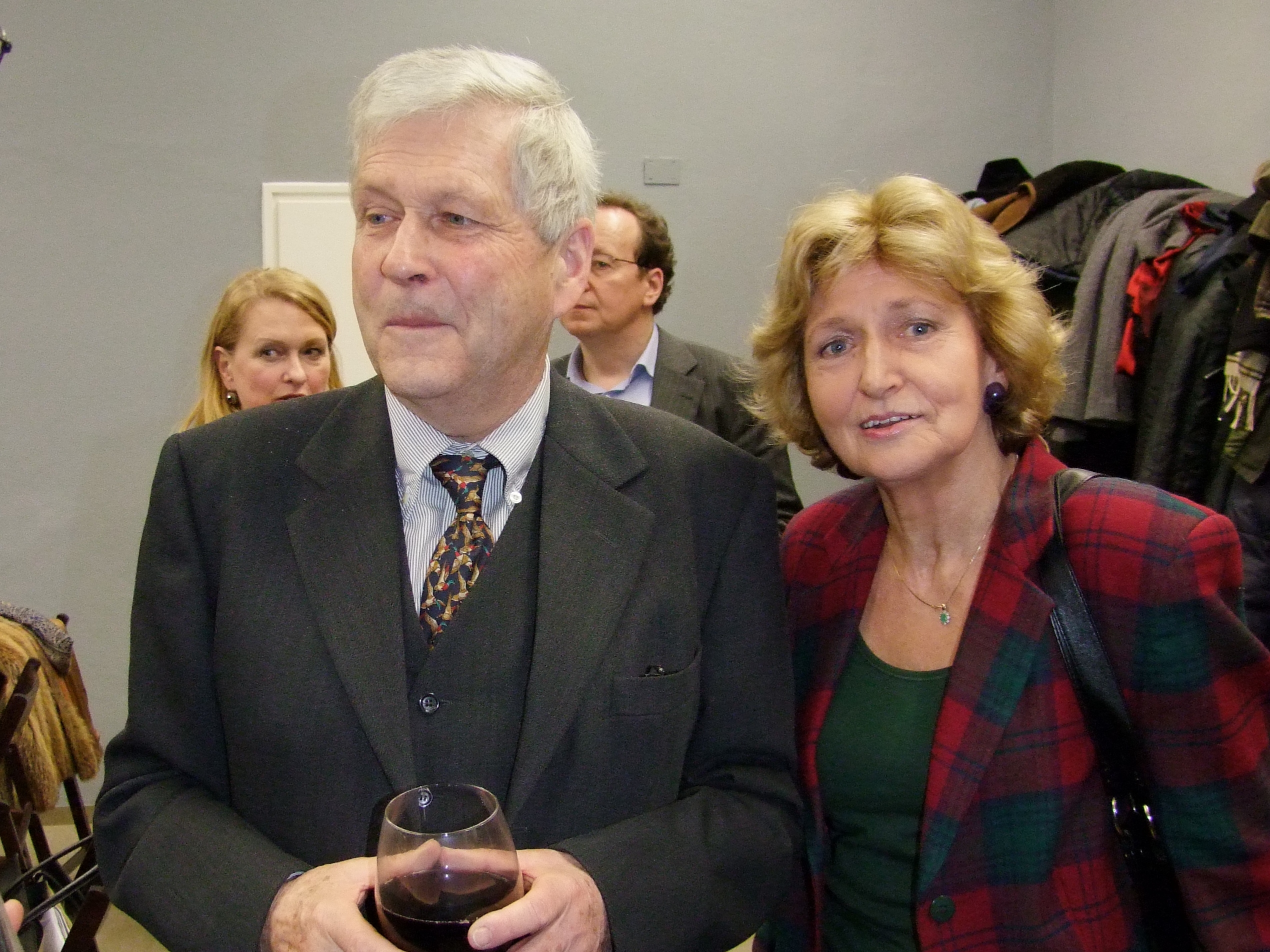 Ulrich Habsburg and his Wife